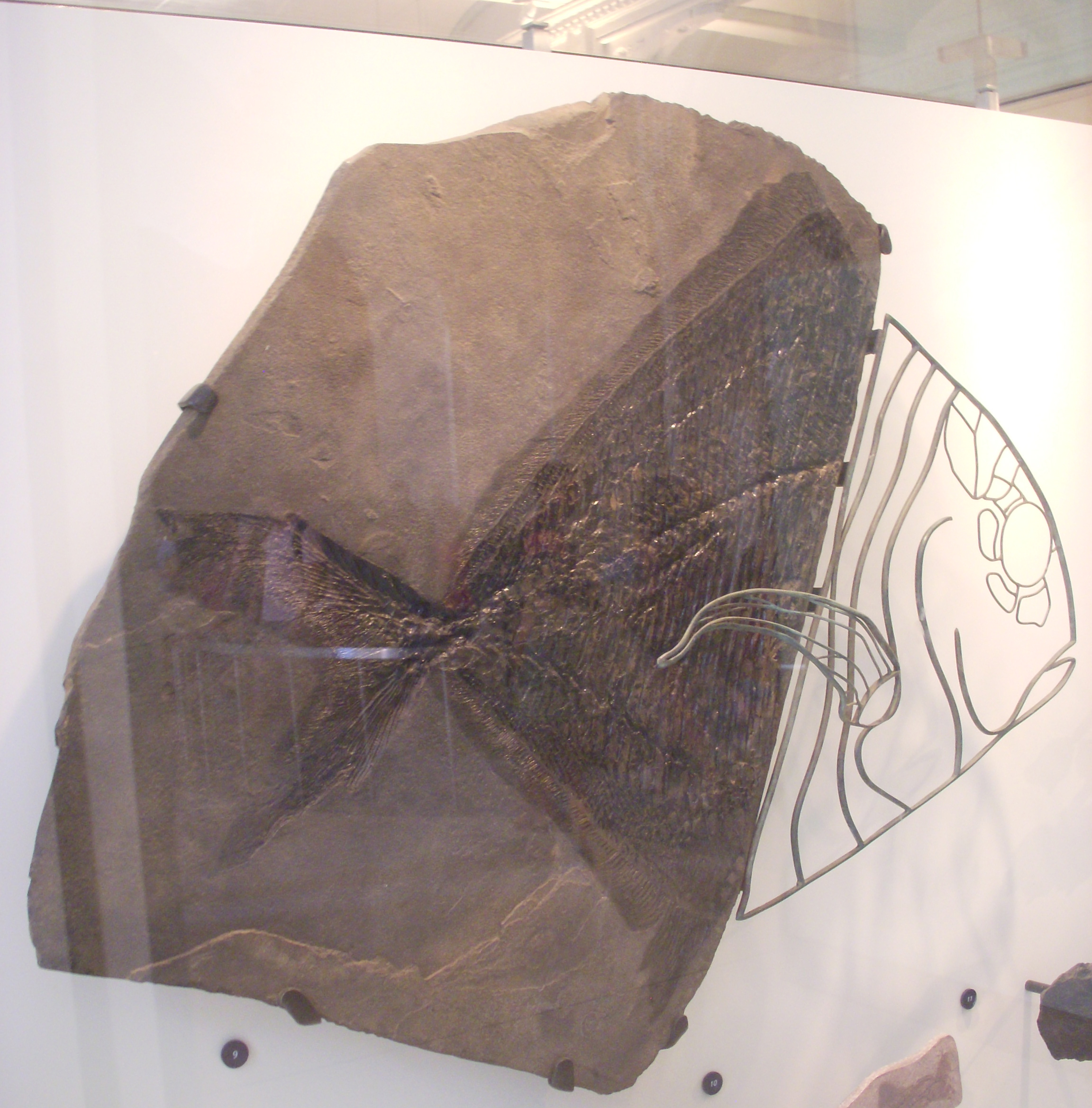 Fossil of Bobasatrania canadensis (specimen AMNH 6210) in the American Museum of Natural History.